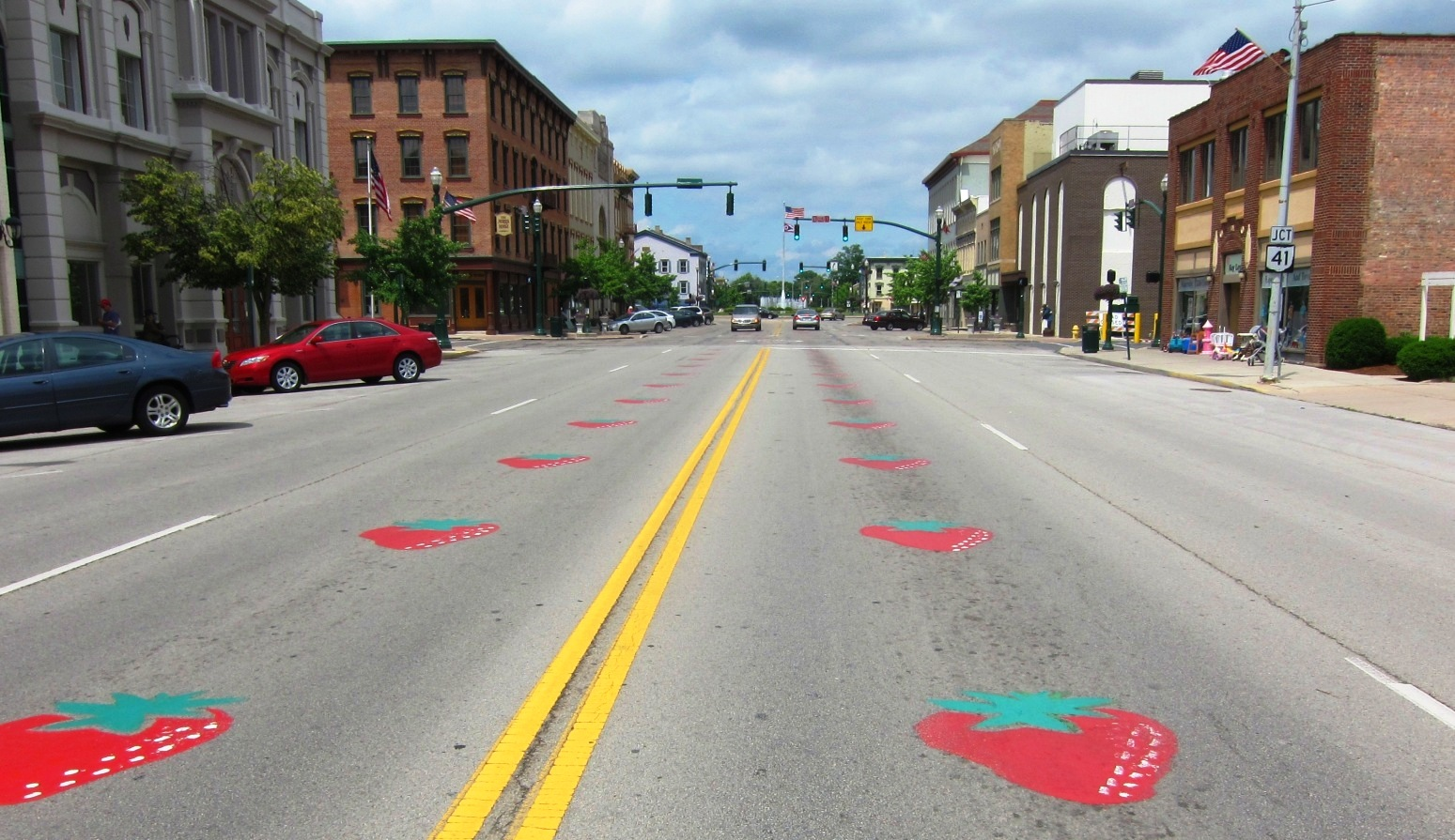 Strawberries in the road